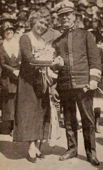 Actress Mary Pickford and Rear Admiral Thomas Jefferson Cowie, on page 46 of the July 12, 1919 Exhibitors Herald.